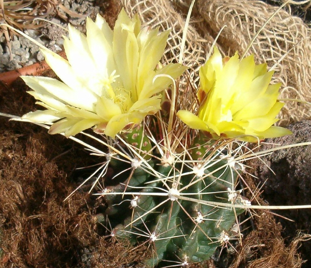 Habitus and Flowers Location: Botanical Gardens Berlin